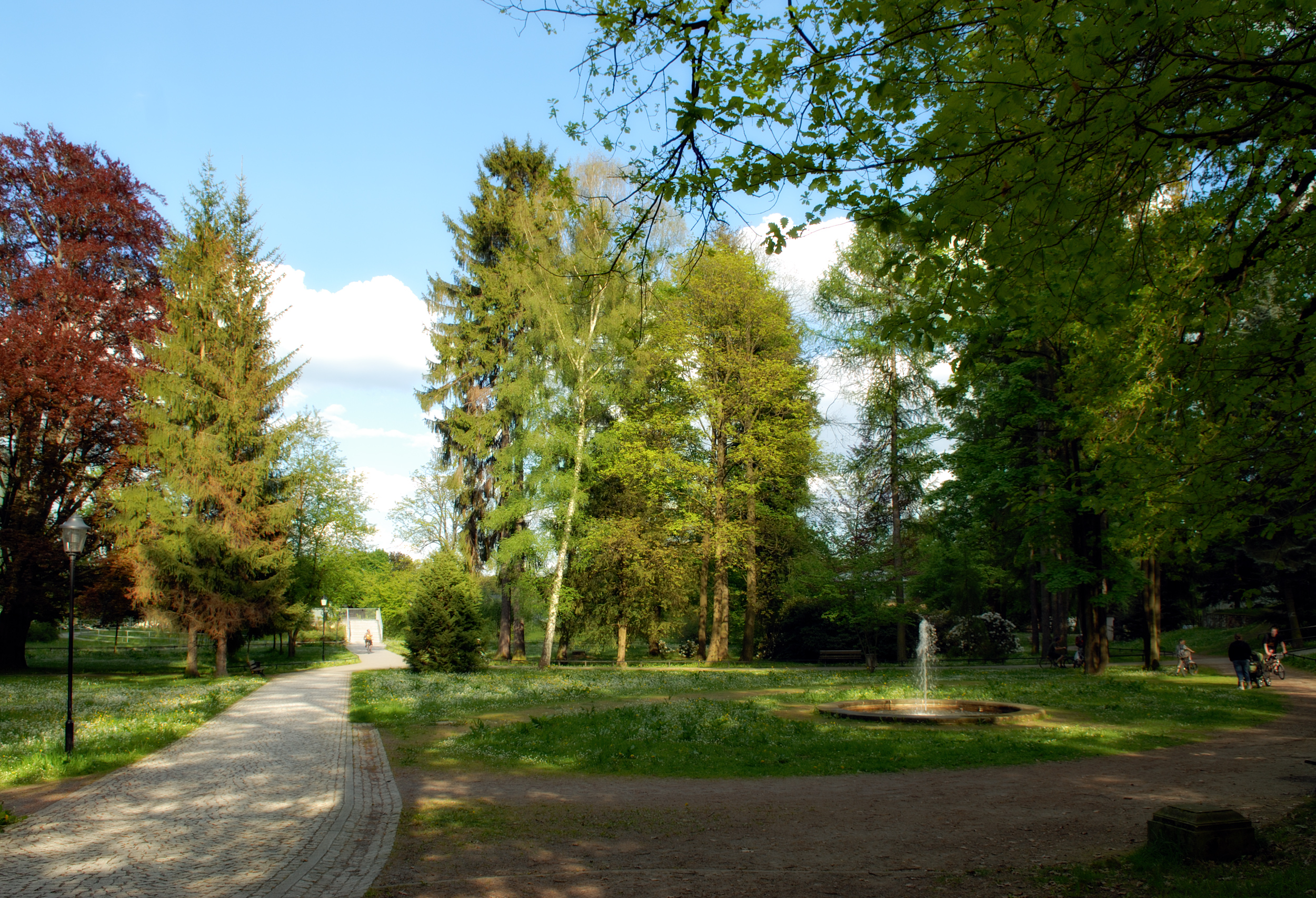 This image shows the park near the old cotton mill in Flöha, Germany.